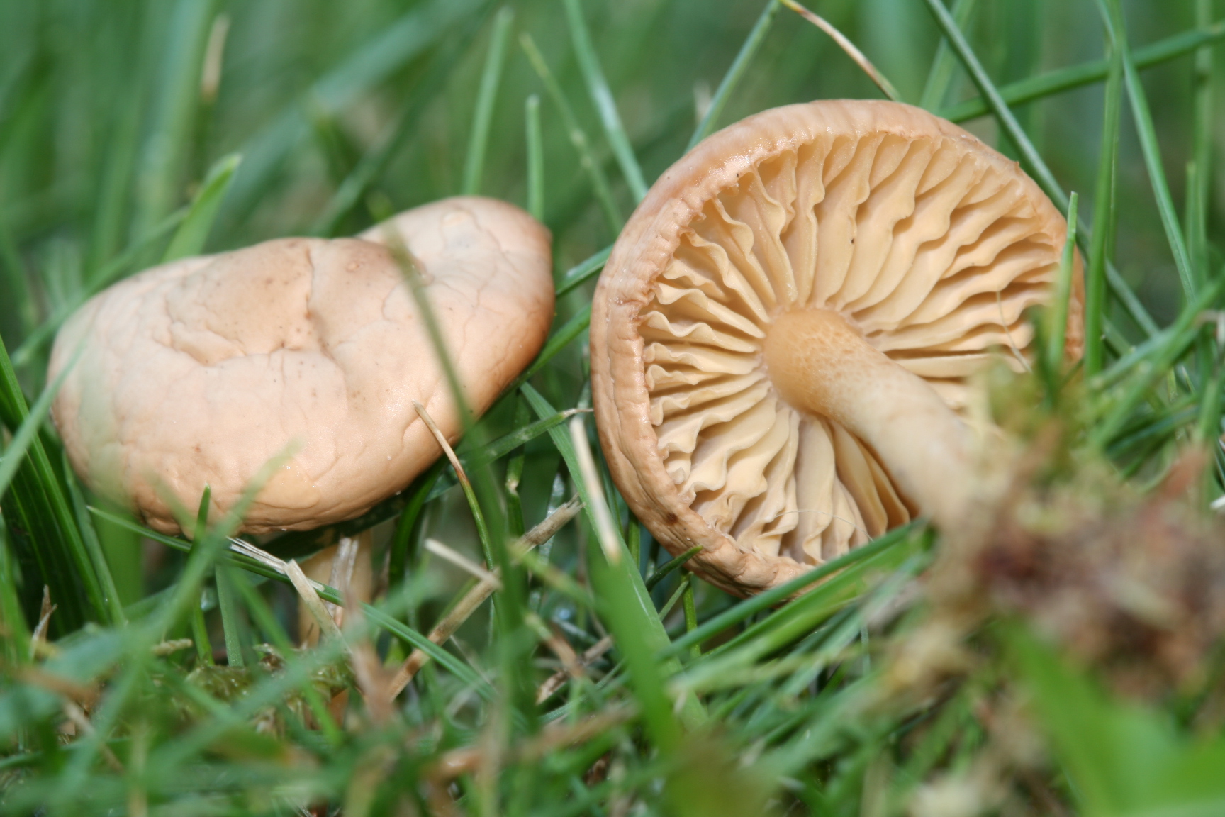 Marasmius oreades in a French garden.